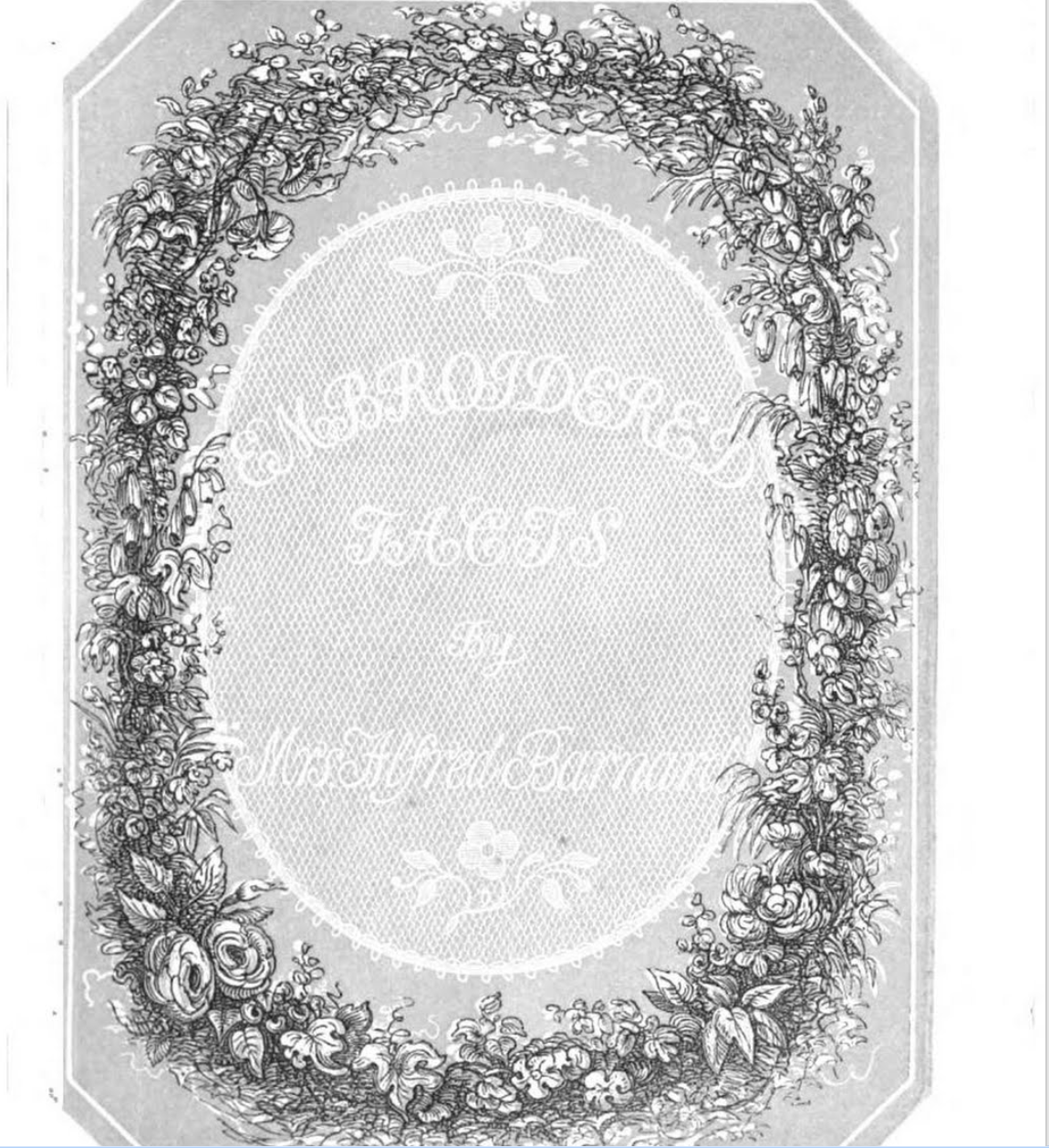 Cover page of "Embroidered Facts by Frances Catherine Barnard" (1796 – 1869)